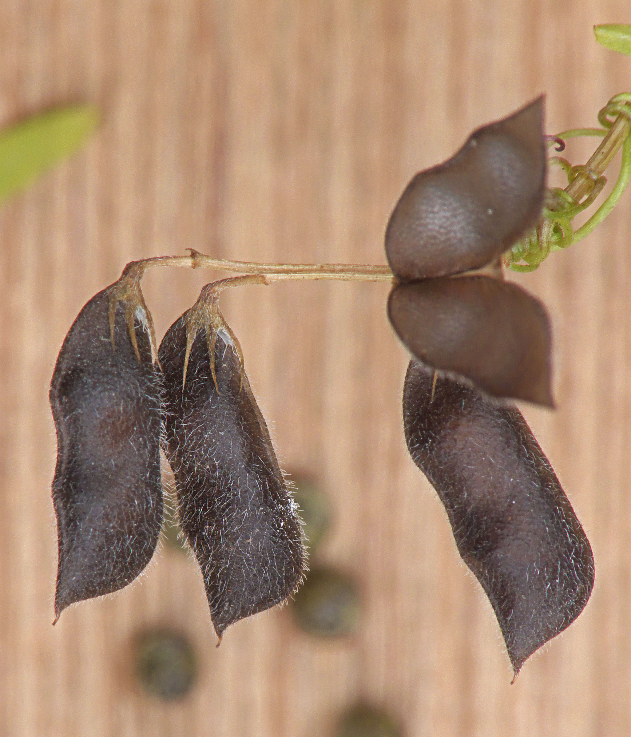 Vicia hirsuta seedpods